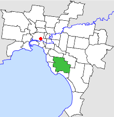 Location of the City of Moorabbin within Melbourne.